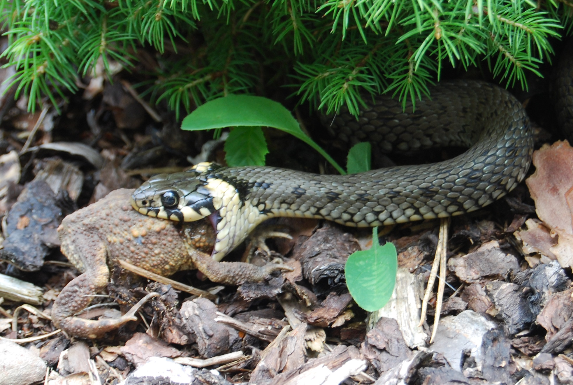 Natrix natrix eating Bufo bufo in Písek District, Czech Republic